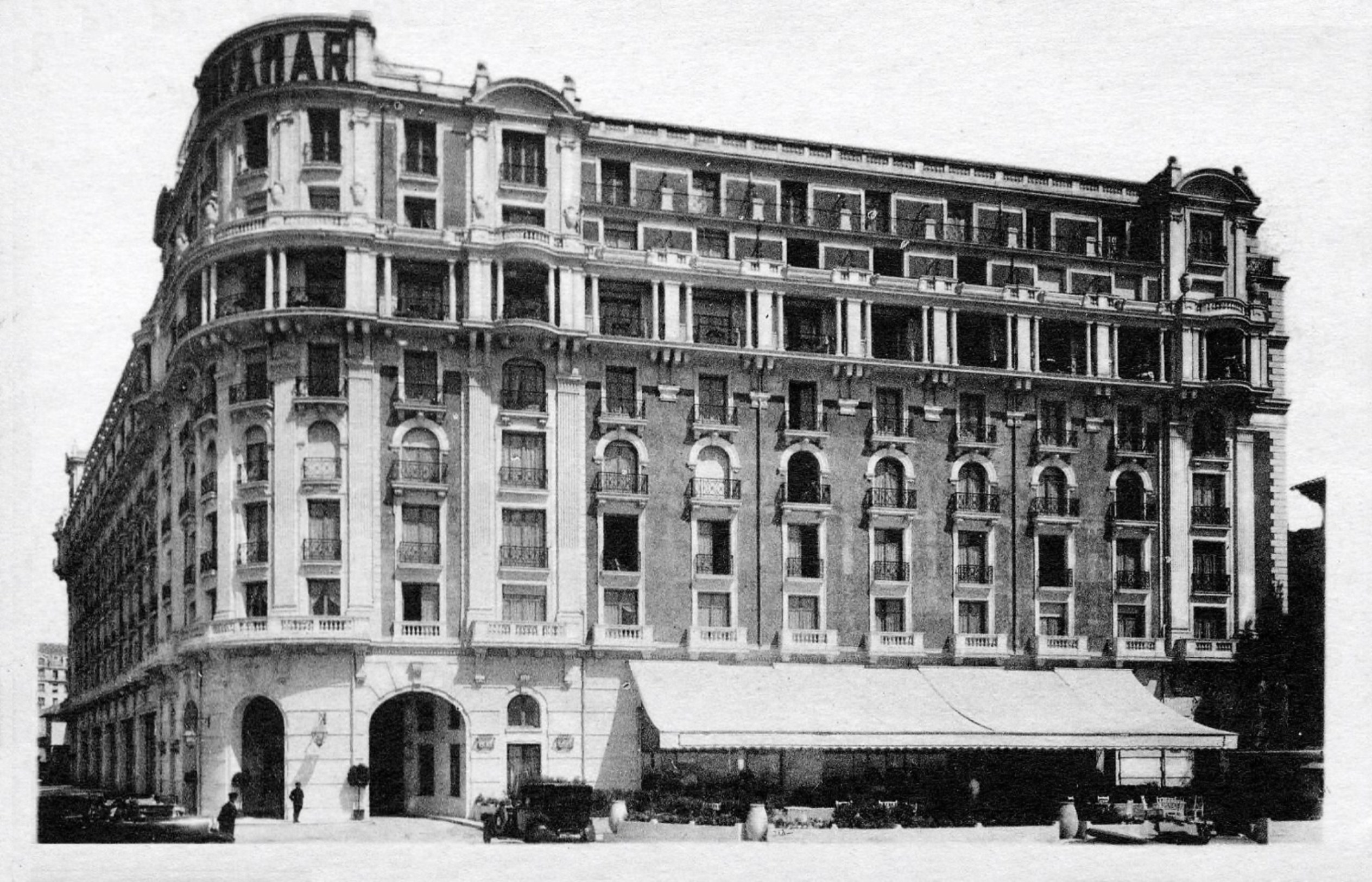 Photograph of the Miramar Hotel in Cannes in the 1930s for the postcard edition. On 20 April 1933 in this palace, takes place the public auction of the collection of works of art of the actress Amélie Diéterle.